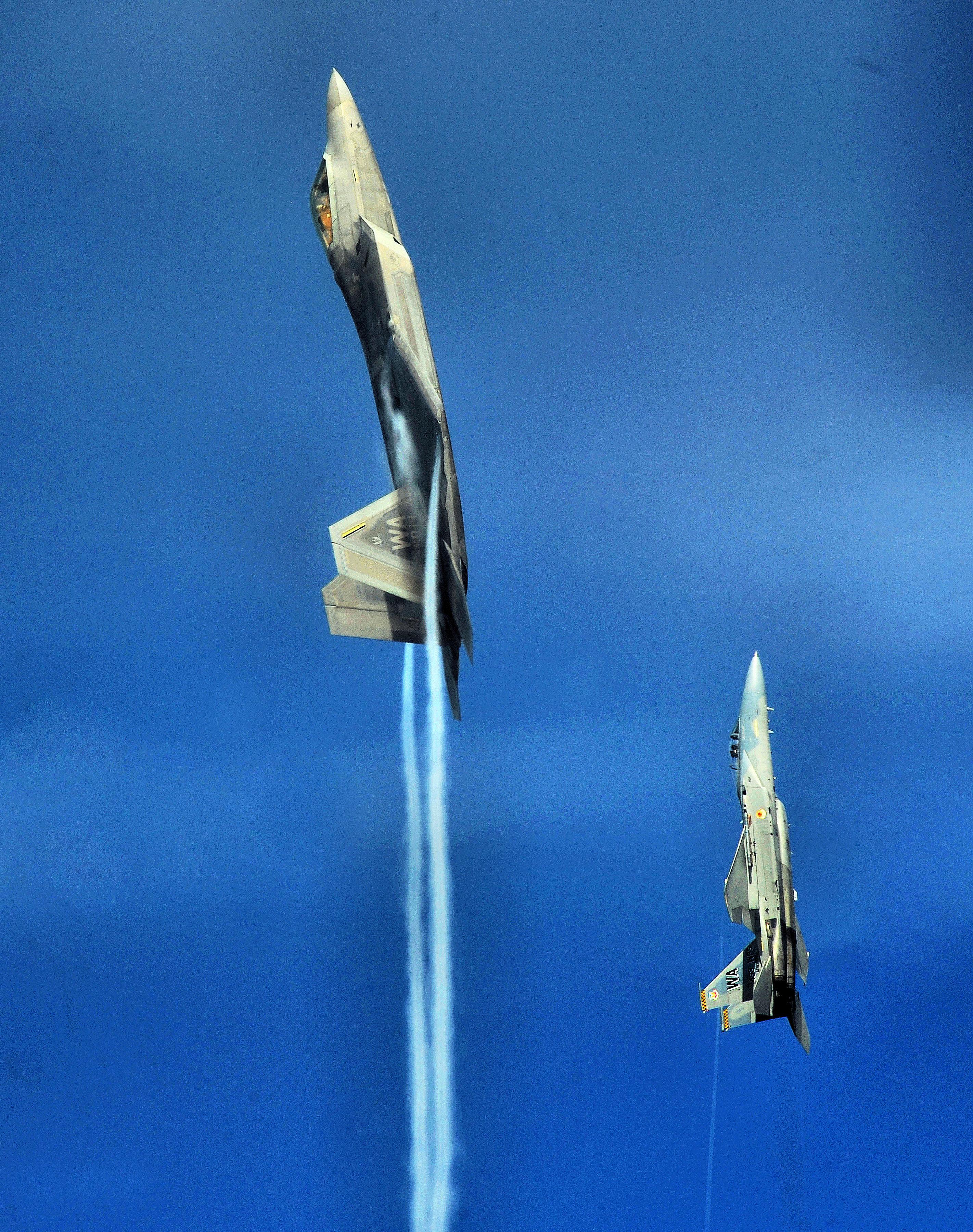 NELLIS AIR FORCE BASE, Nev.--An F-22A Raptor and F-15C Eagle from the U.S. Air Force Weapons School's 433rd Weapons Squadron pull into a vertical climb over the Nevada Test and Training Range July 16, 2010. The NTTR is the U.S. Air Force’s premier military test and training facility with more than 12,000 square miles of airspace and 2.9 million acres of land. With 1,900 possible targets, realistic threat systems and the support of an opposing enemy force from Nellis Air Force Base, the NTTR provides the combat air force with a "peacetime battlefield" that cannot be replicated anywhere else in the world . (U.S. Air Force photo by Master Sgt. Kevin J. Gruenwald)